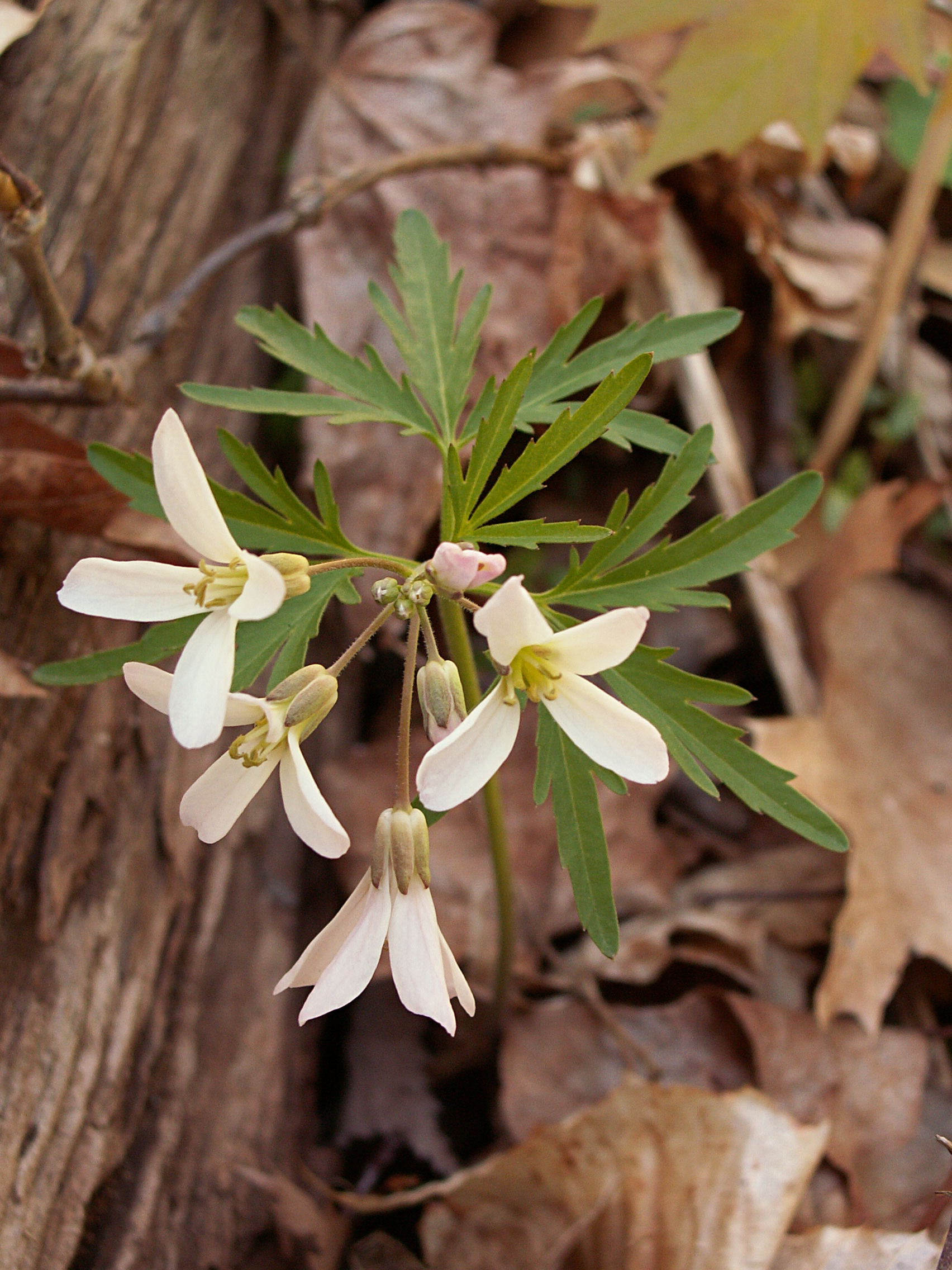 Cardamine concatenata blooming in Bird Park, Mount Lebanon, Pennsylvania